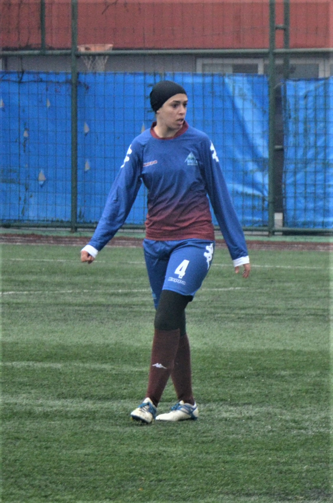 Sara Mohamed playing for Trabzon İdmaocağı in the away match against Beşiktaş J.K. in the 2017-18 Turkish Women's First League.